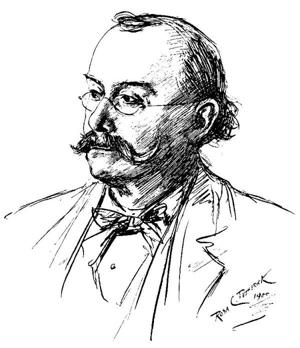 Drawing by Rosa C. Petherick (1871-1931) of her father Horace William Petherick in 1900.